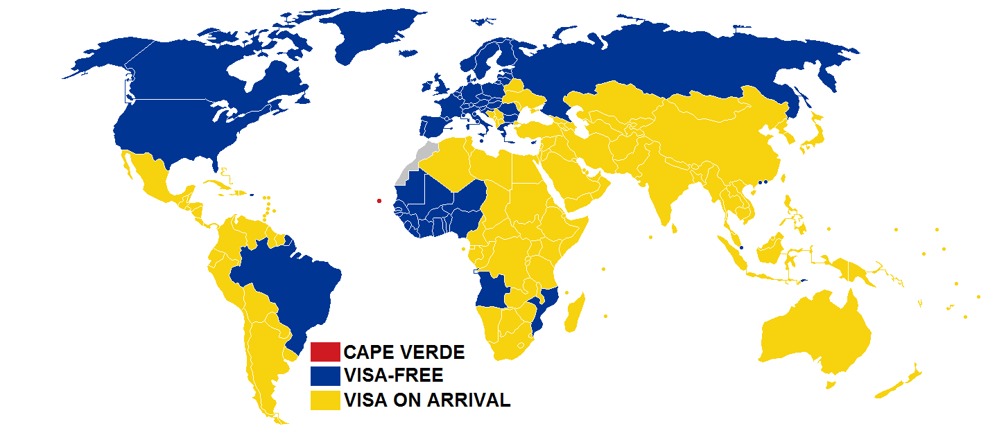 Visa policy of Cape Verde Cape Verde Visa exemption Visa issued on arrival